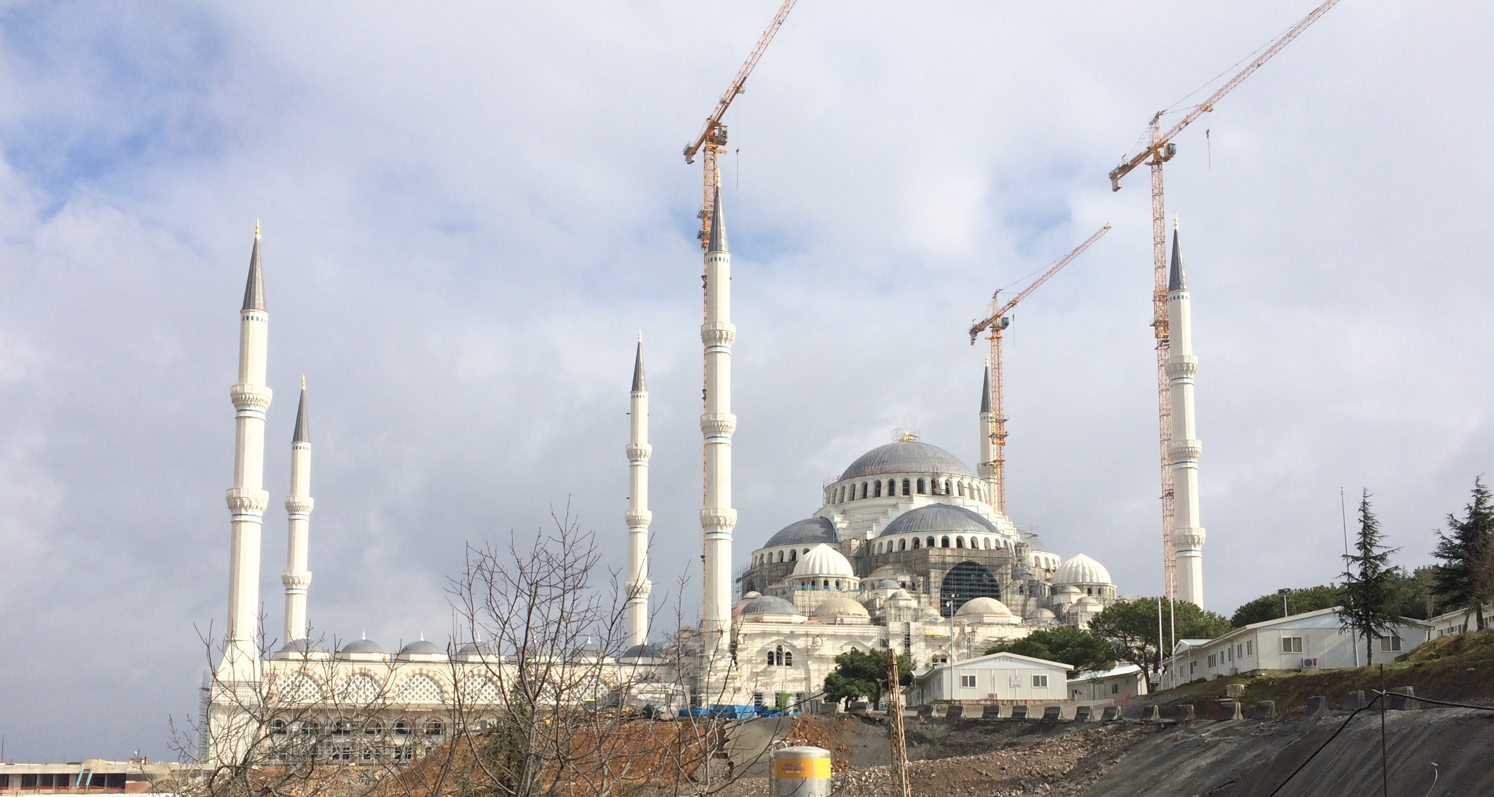 Çamlıca Mosque construction Feb 2017